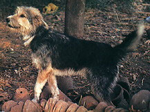 The Armant Dog, standing on top of some orange stuff, and is in the Woods, unknown where taken.